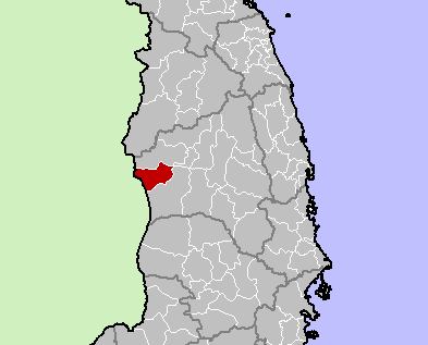 Duc Co District, Gia Lai Province, Vietnam.